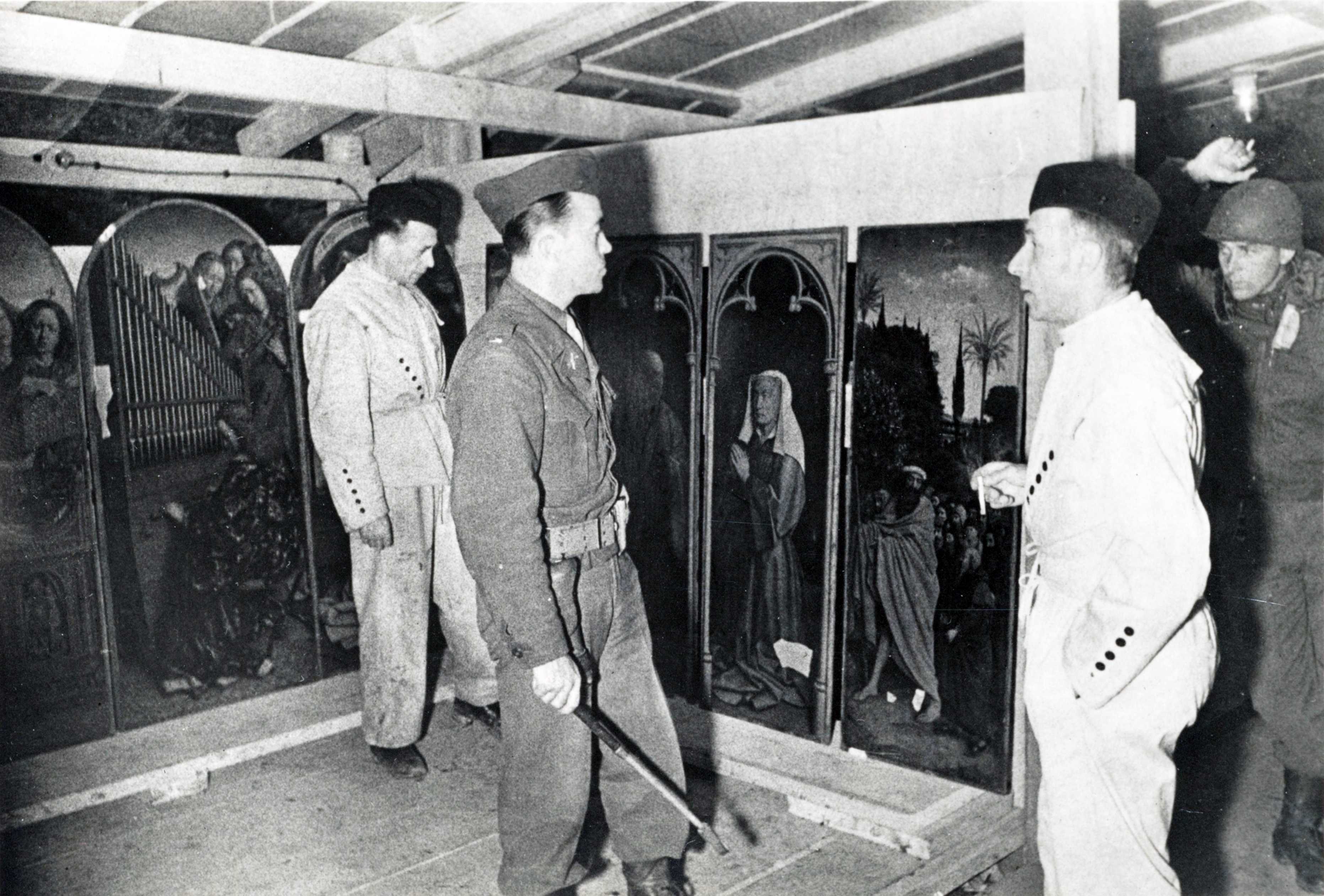 Altaussee Salt/Art Mine discovery after WW II